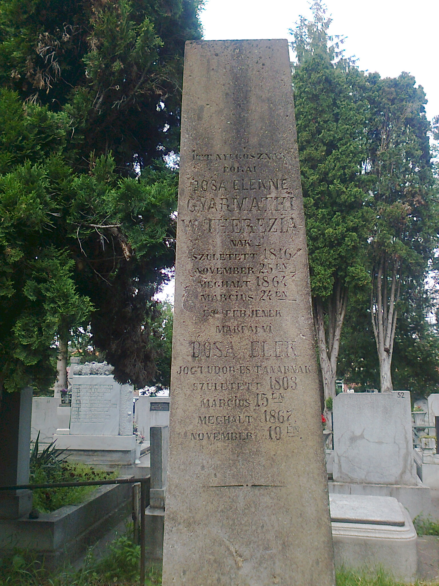 Thomb of Dósa Elek (1803-1867), Hungarian jurist, poet in Targu Mures reformed cemetery